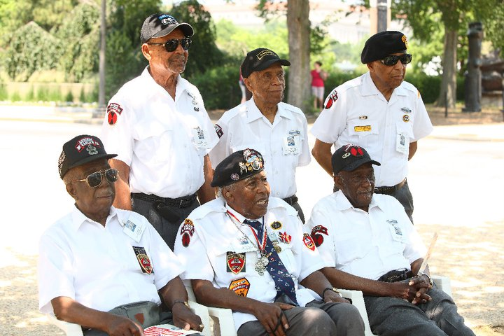 Seated are representatives of the 2nd Ranger Infantry Company (Airborne), the first and only all-black Ranger unit in the history of the United States Army. (seated l to r--Donald Allen, Paul Lyles, Richard Briscoe, standing l to r--Eugene Coleman, Winston Jackson and Herculano Dias. Nearly sixty years have passed since the Korean War slipped into the realm of history and now here we share an important untold story of the Korean War. The 2nd Ranger Infantry Company (Airborne) was the first and only all-black Ranger unit in the history of the United States Army. Its 10-month lifespan included selection, training, and seven months of combat deployment in Korea, after which the unit was deactivated. This elite, all-volunteer unit, were drawn from the 3rd Battalion of the 505th Airborne Infantry Regiment and the 80th Airborne Anti-Aircraft Battalion. After experiencing the normal travails of boot camp at Fort Benning, which segregation and racism only made worse, the all-black Rangers set out to join the Korean War in late 1950. On January 7, 1951, the Rangers found themselves defending a critical railroad running through Tanyang Pass, which Communist guerillas tried to infiltrate. The nighttime action triggered the Rangers' inaugural combat. Additional combats with the North Korean and Communist Chinese forces erupted near Majori-ri and Chechon. But the event that propelled the 2nd Rangers into the record books was their airborne assault near Munsan-Ni on March 23, 1951-the first in Ranger history. Once on the ground, they executed an heroic attack and defense of Hill 581. The fighting-often conducted at close quarters and occasionally with the bayonet-demonstrated the courage of these tough American Soldiers. Throughout their deployment in Korea, the 2nd Rangers served with honor and achieved a magnificent combat record.